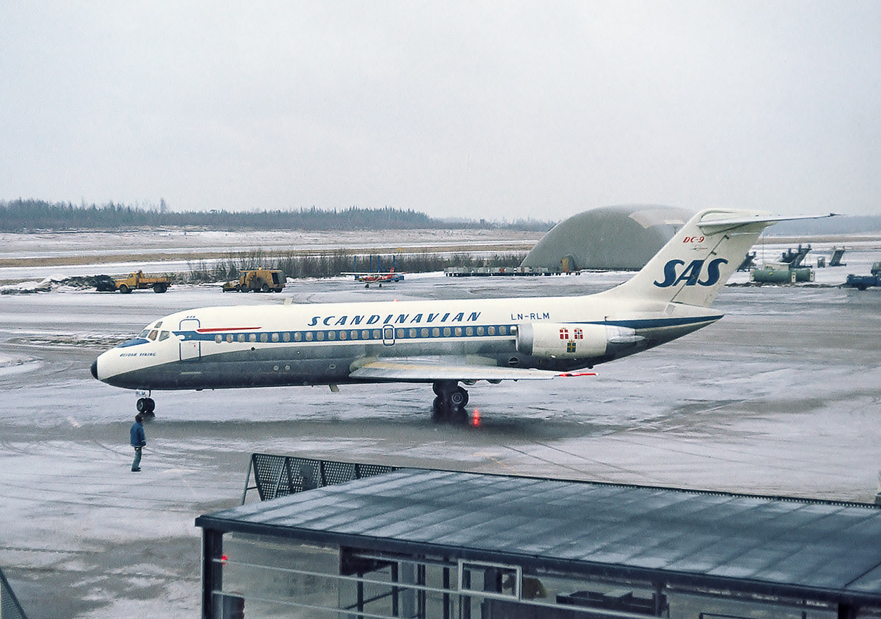 Scandinavian Airlines System (SAS) McDonnell Douglas DC-9-21 LN-RLM Reidar Viking at Stockholm-Arlanda Airport